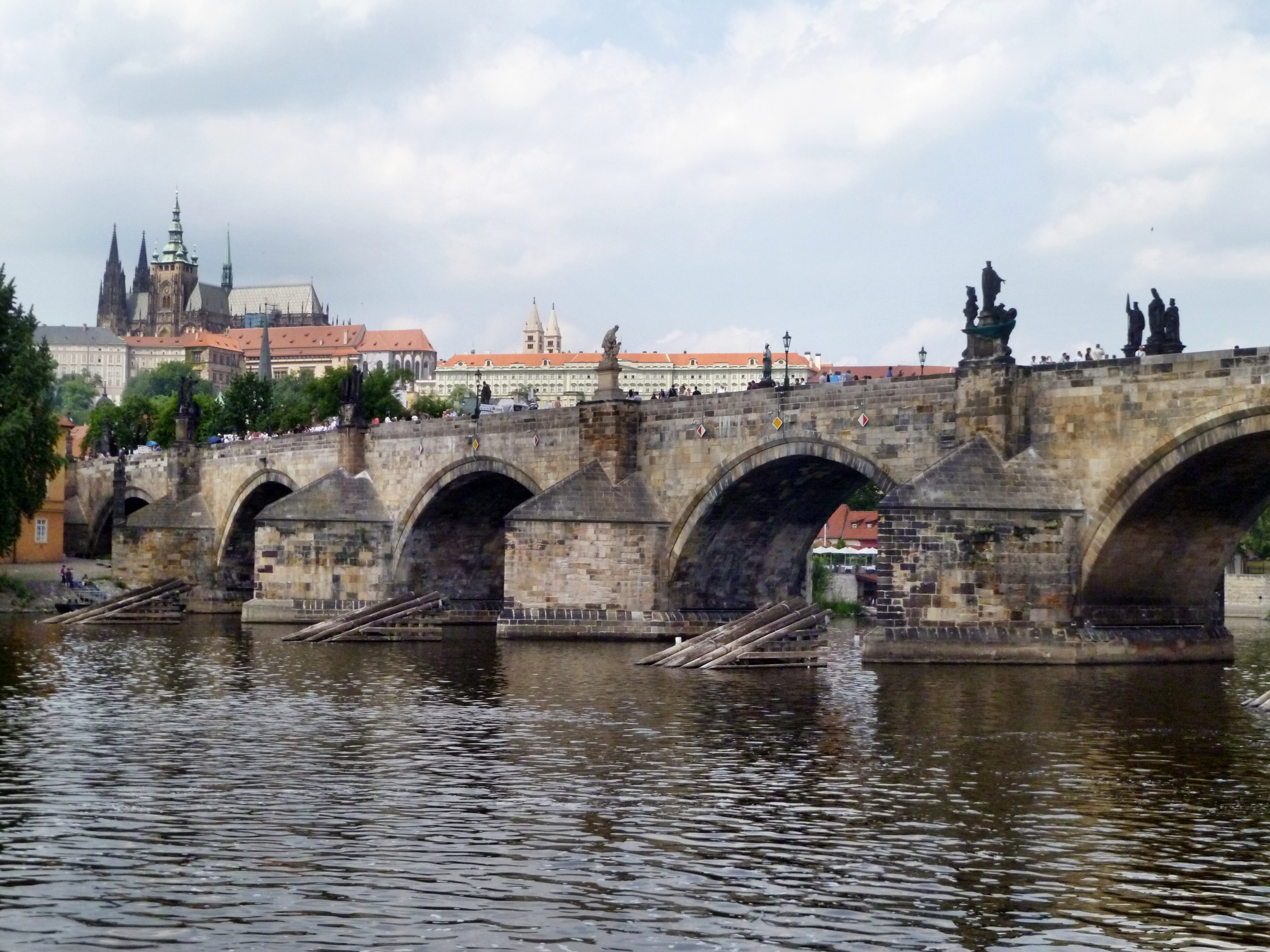 Charles Bridge as seen from the Vltava River, Prague, Czech Republic